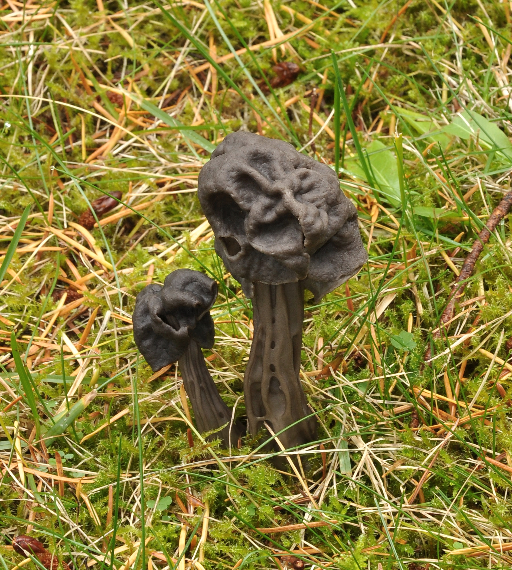 A Slate grey saddle (Helvella lacunosa).